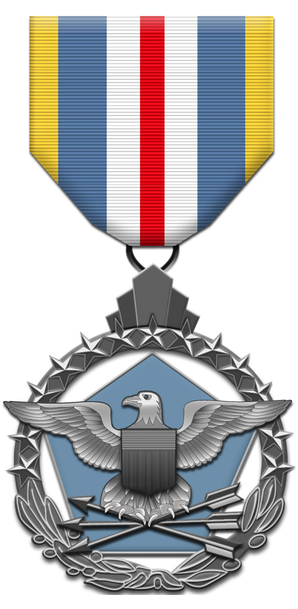 Defense Superior Service Medal of the United States military, established in 1976 by Executive Order 11904